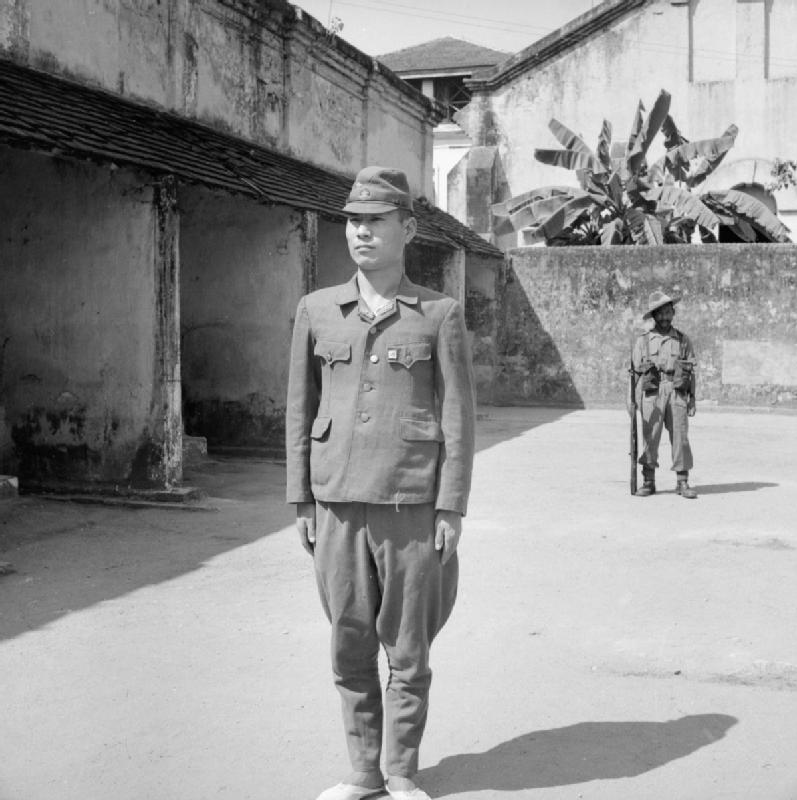 Trial of Japanese War Criminals in Burma Major Ichikawa, commanding officer of the 3rd Battalion, 215th Infantry Regiment, was the first war criminal to be tried at Rangoon. He was accused, with 13 of his men, of killing 600 inhabitants of the village of Kalagan, a few miles to the east of Moulmein.